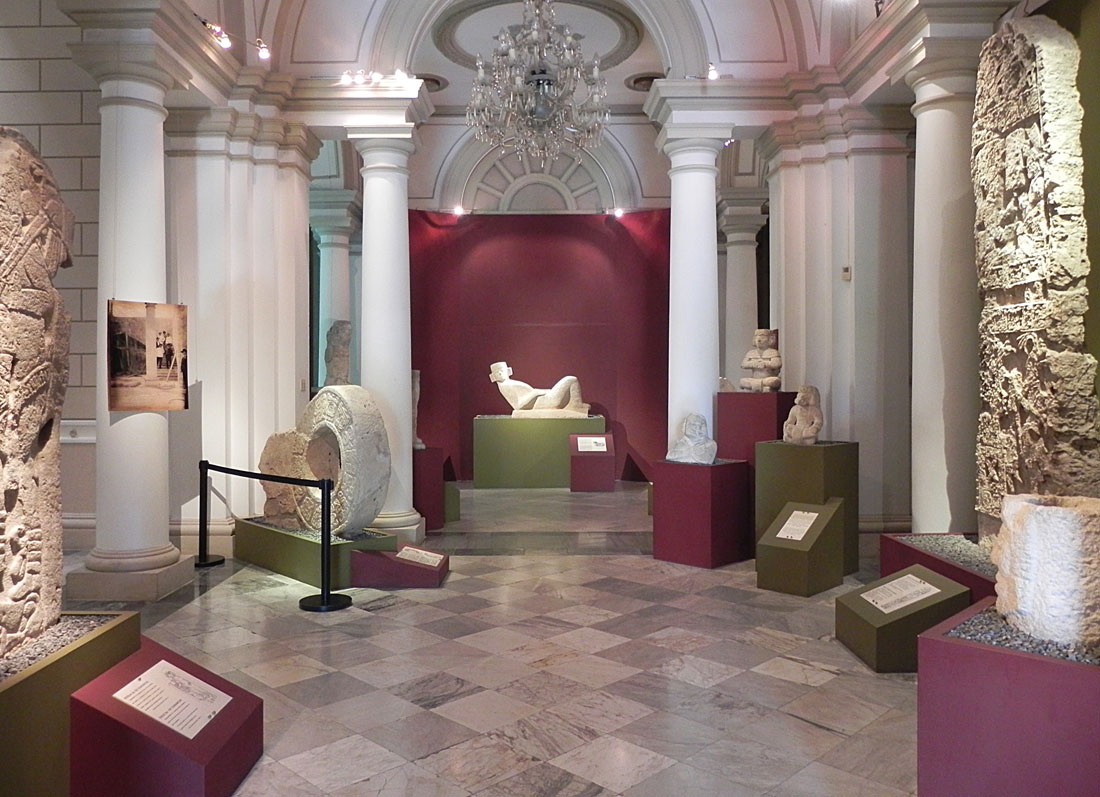 Palacio Cantón - Room of the Museo Yucateco de Antropología e Historia